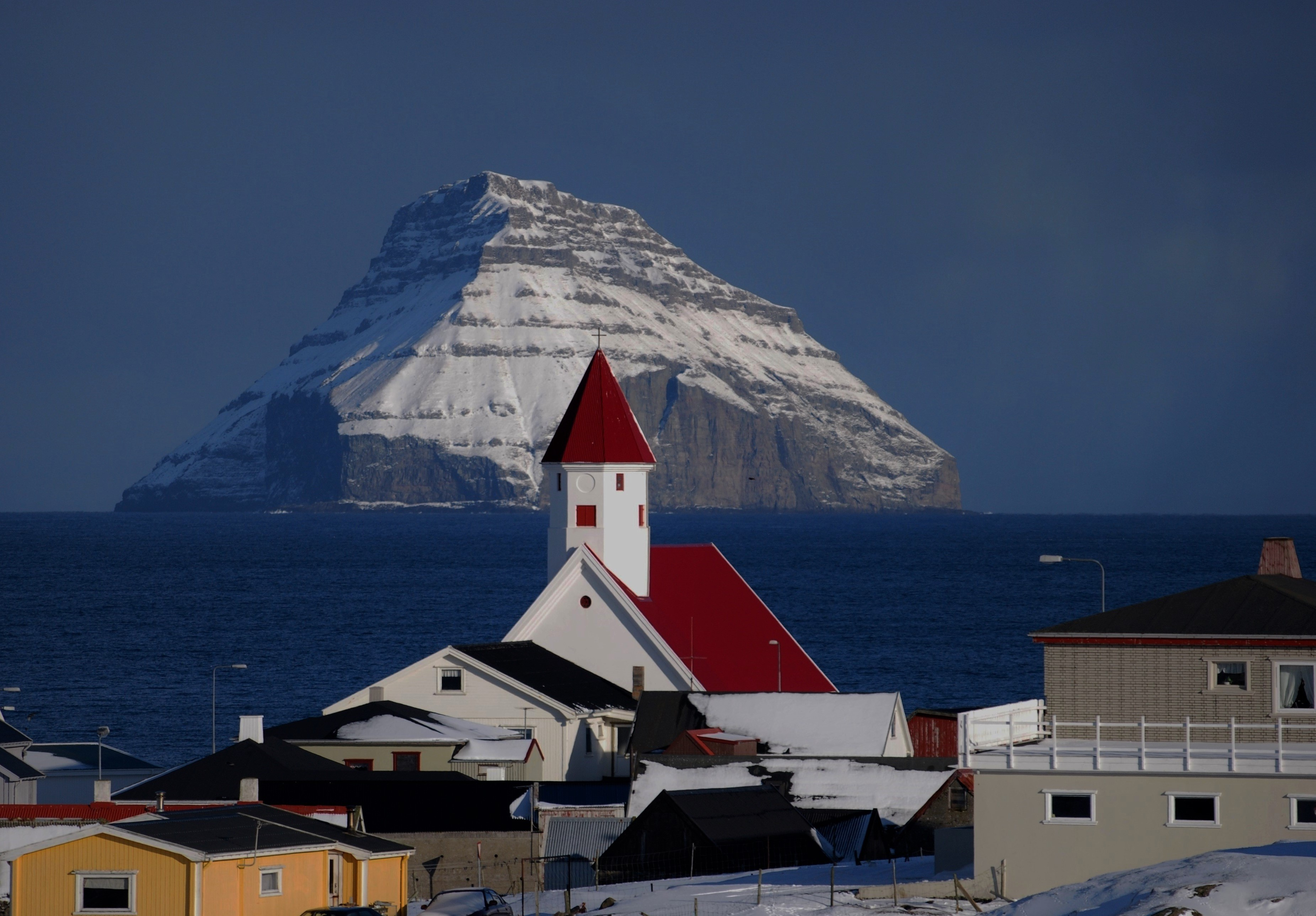 Hvalba with Lítla Dímun in the background. Suðuroy, Faroe Islands